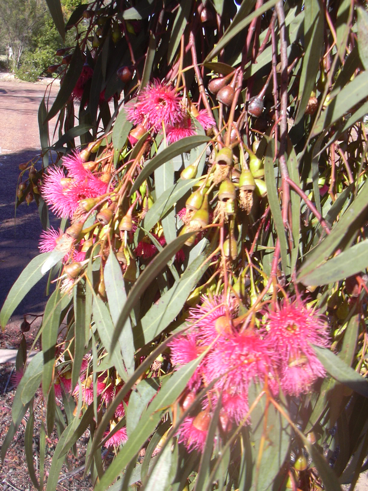 Eucalyptus (York, Centennial Park), Western Australia